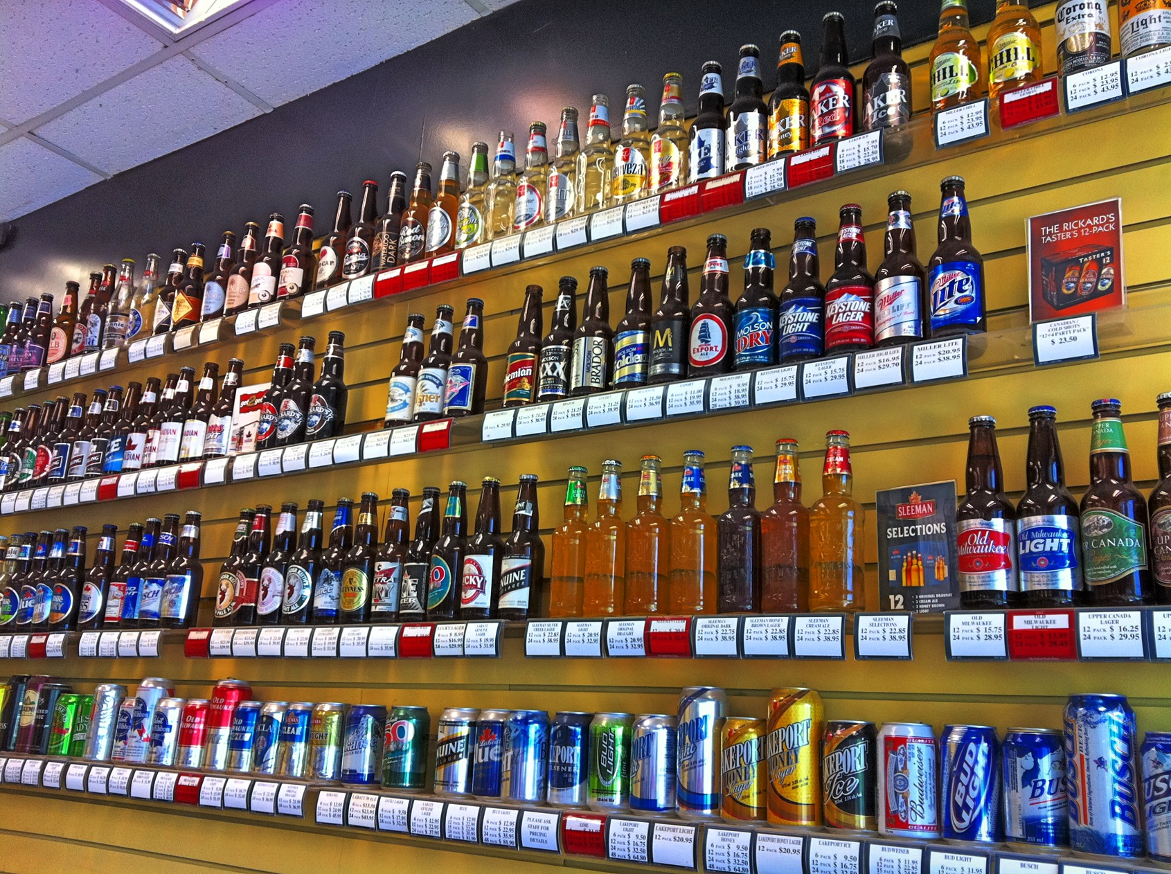 The LCBO Beer Wall